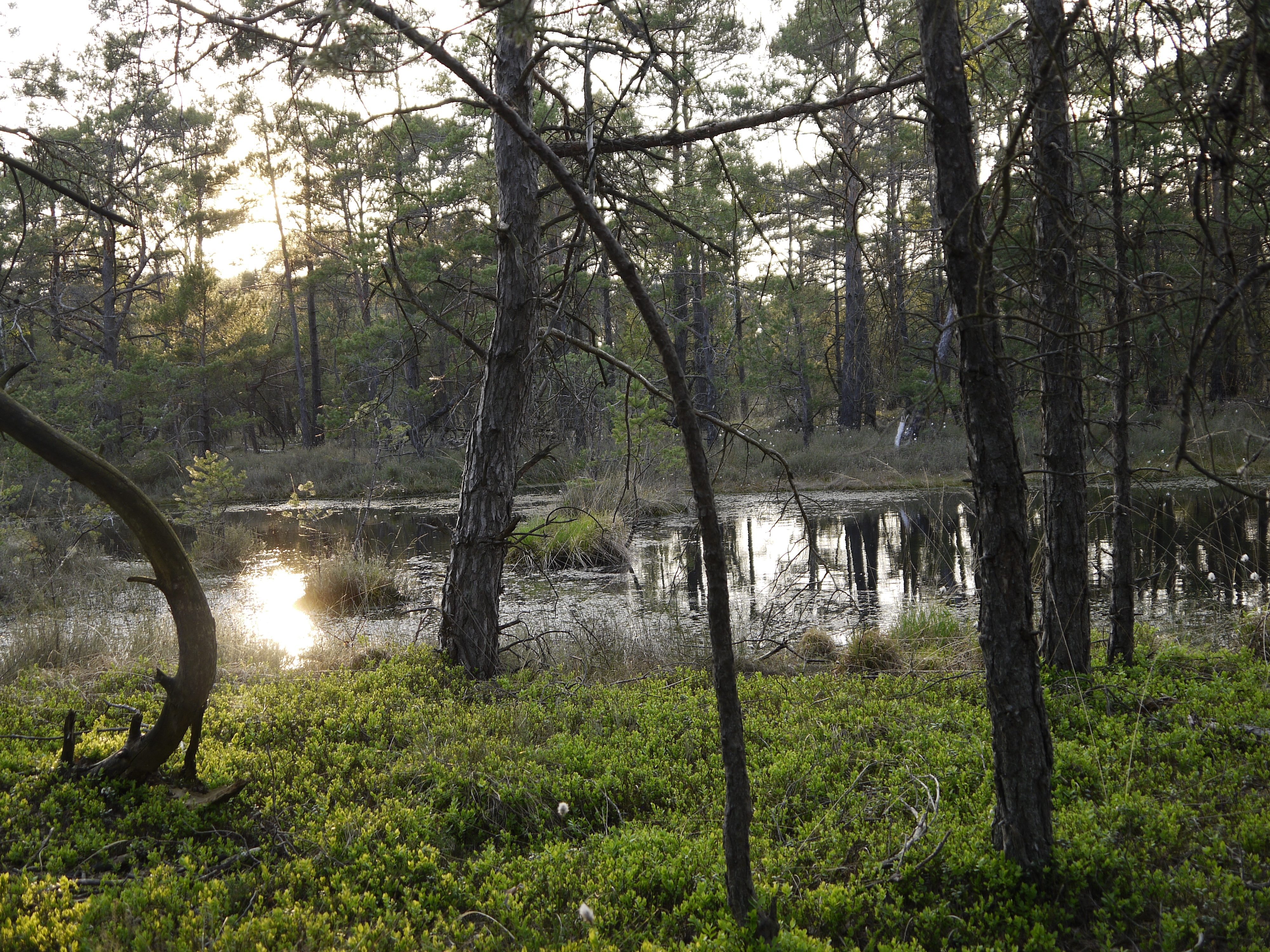 Lower Saxony, Otternhagener Moor, swampy lake